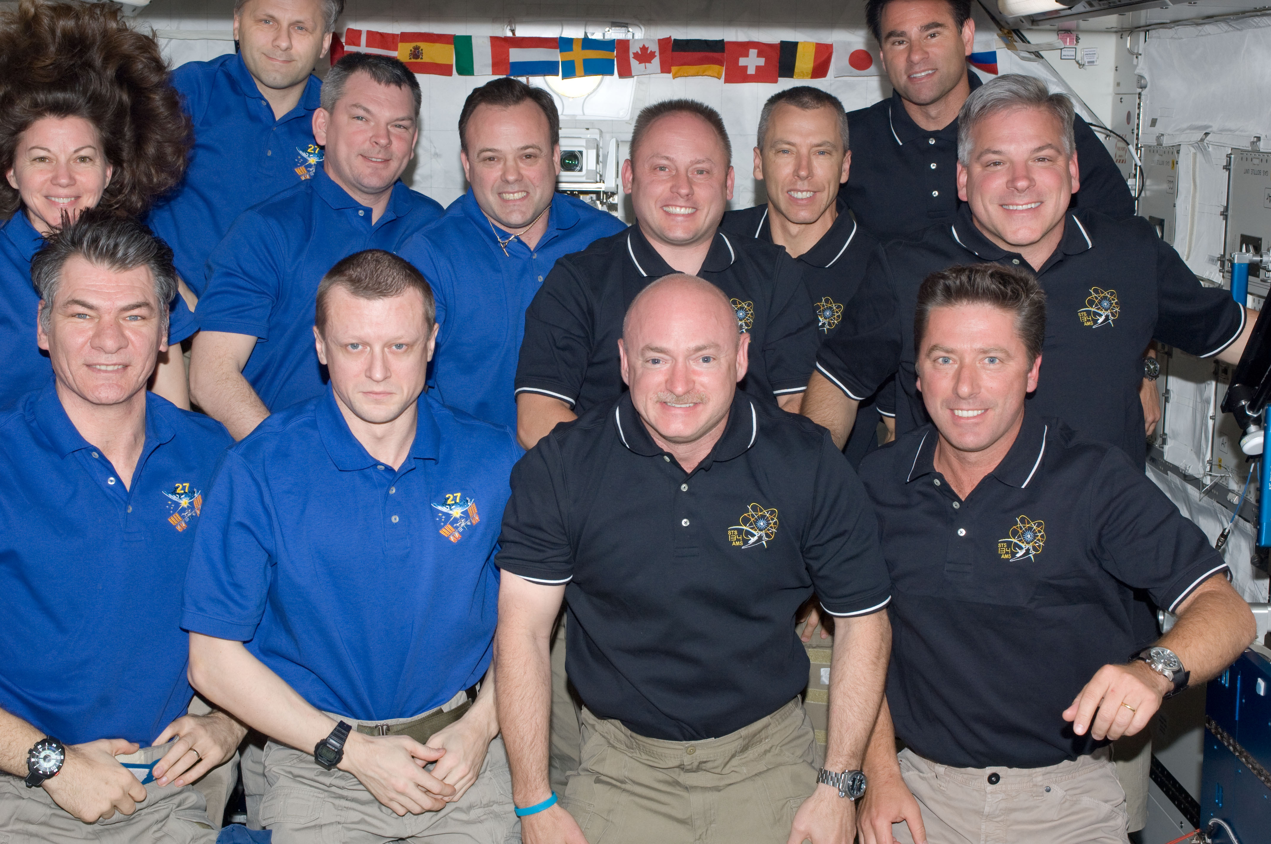 Inside the Kibo lab onboard the International Space Station (ISS), twelve astronauts and cosmonauts making up the STS-134 Endeavour and ISS Expedition 27 crews take a break from joint chores to pose for a group portrait. From left to right (front row) are European Space Agency (ESA) astronaut Paolo Nespoli, Russian cosmonaut Dmitry Kondratyev, NASA astronaut Mark Kelly and ESA astronaut Roberto Vittori; and (back row), NASA astronaut Cady Coleman, Russian cosmonauts Andrey Borisenko and Alexander Samokutyaev, along with NASA astronauts Ron Garan, Michael Fincke, Andrew Feustel, Greg Chamitoff and Greg H. Johnson.